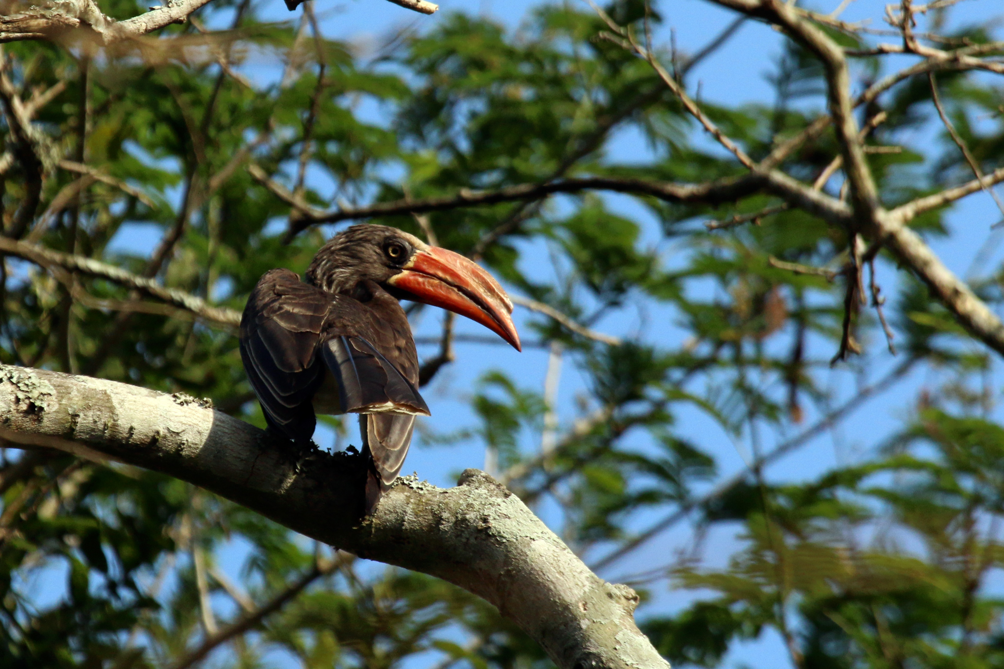 Crowned hornbill (Tockus alboterminatus) male, uMkhuze Game Reserve, KwaZulu Natal, South Africa